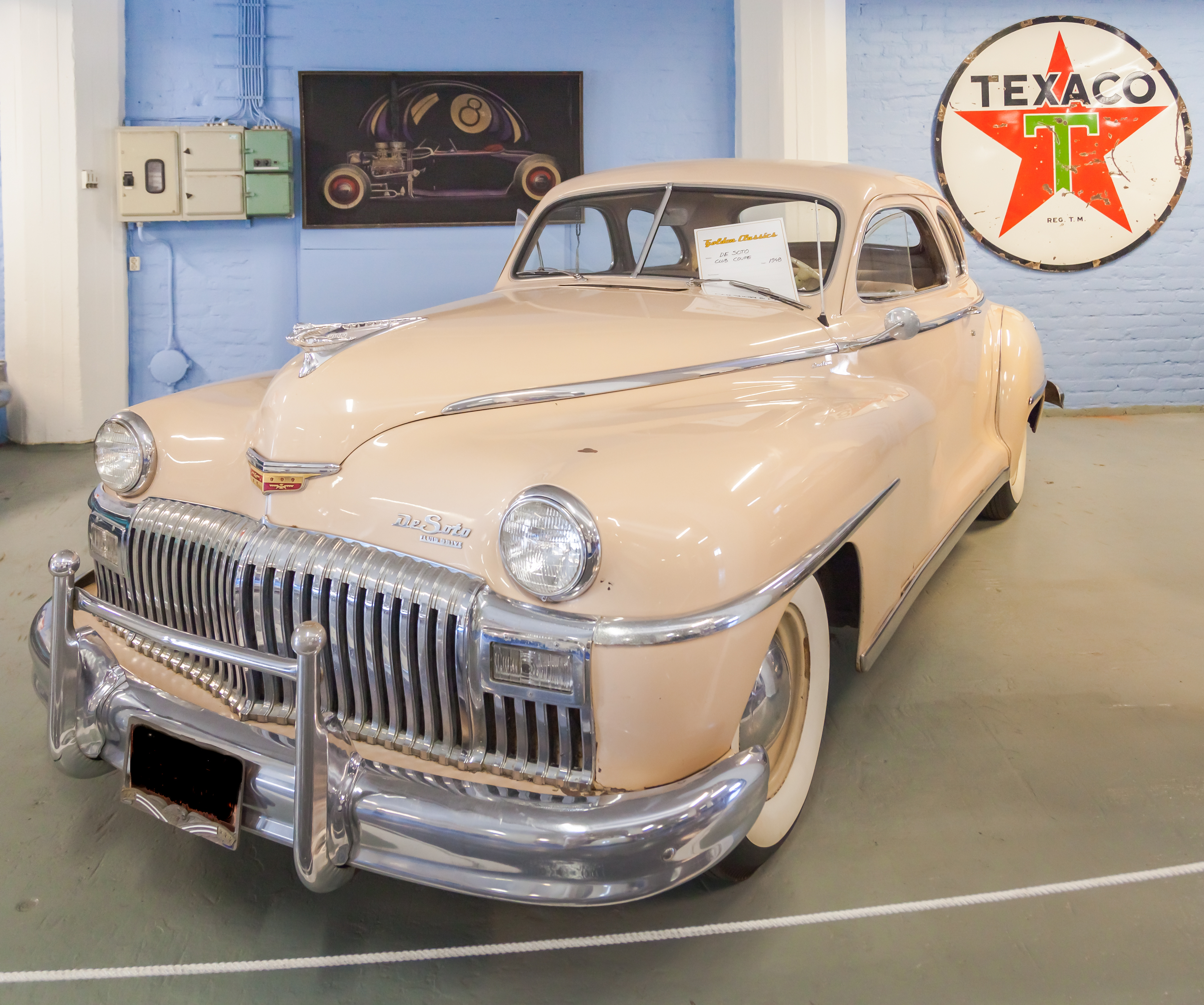 De Soto Club Coupe of 1948, Helsinki, Finnland